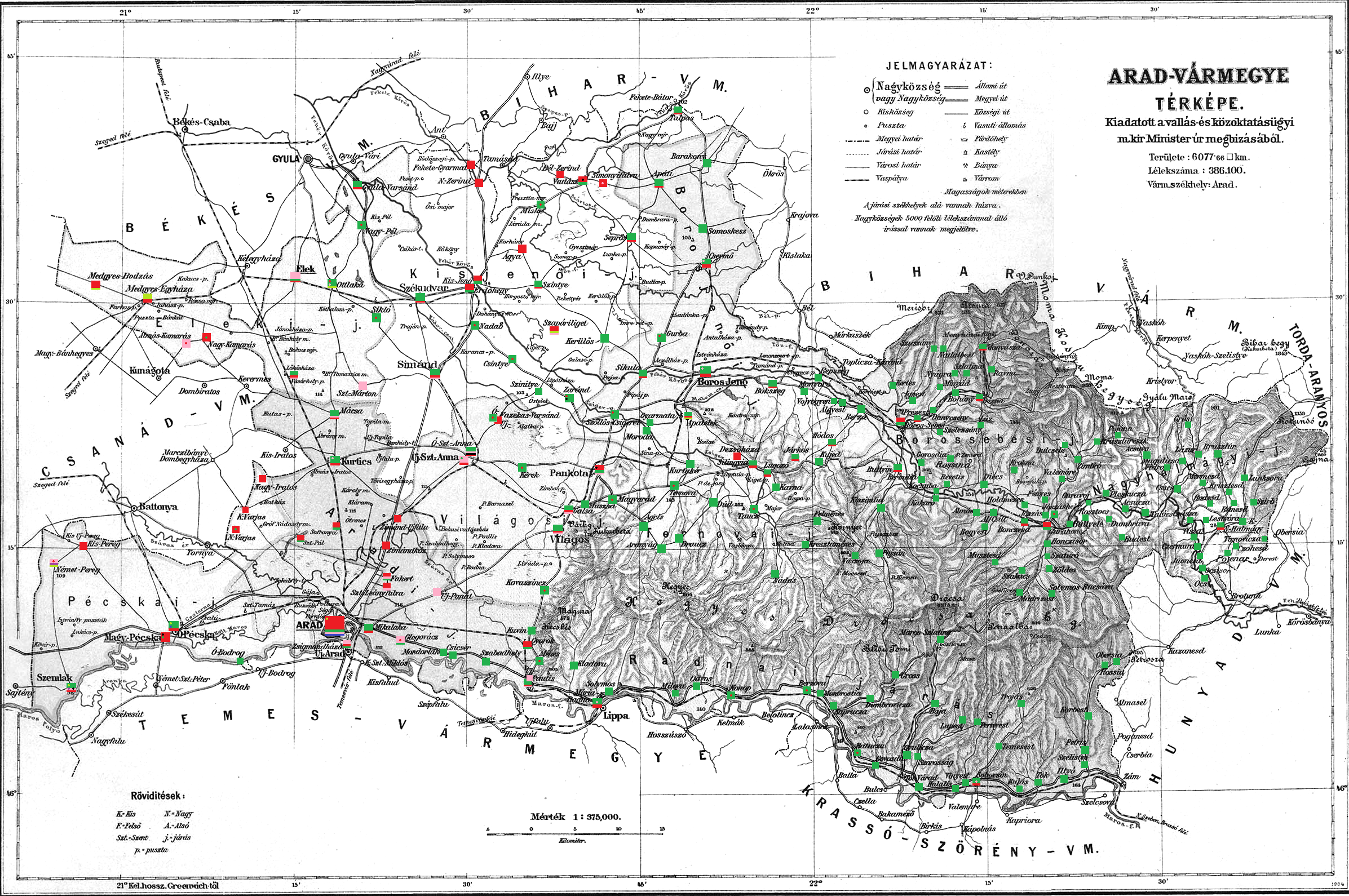 Ethnic map of the county (with data of the 1910 census). Key: dark green - Romanians; red - Hungarians; pink - Germans; light green - Slovaks; violet - Ruthenians, black - Roma; dark blue - Serbs. Coloured dots in plain rectangles imply the presence of smaller minority populations (generally more than 100 people or 10%). Multicoloured rectangles imply cities and villages with multi-ethnic populations with the order of the stripes following the ethnic composition of the settlement.